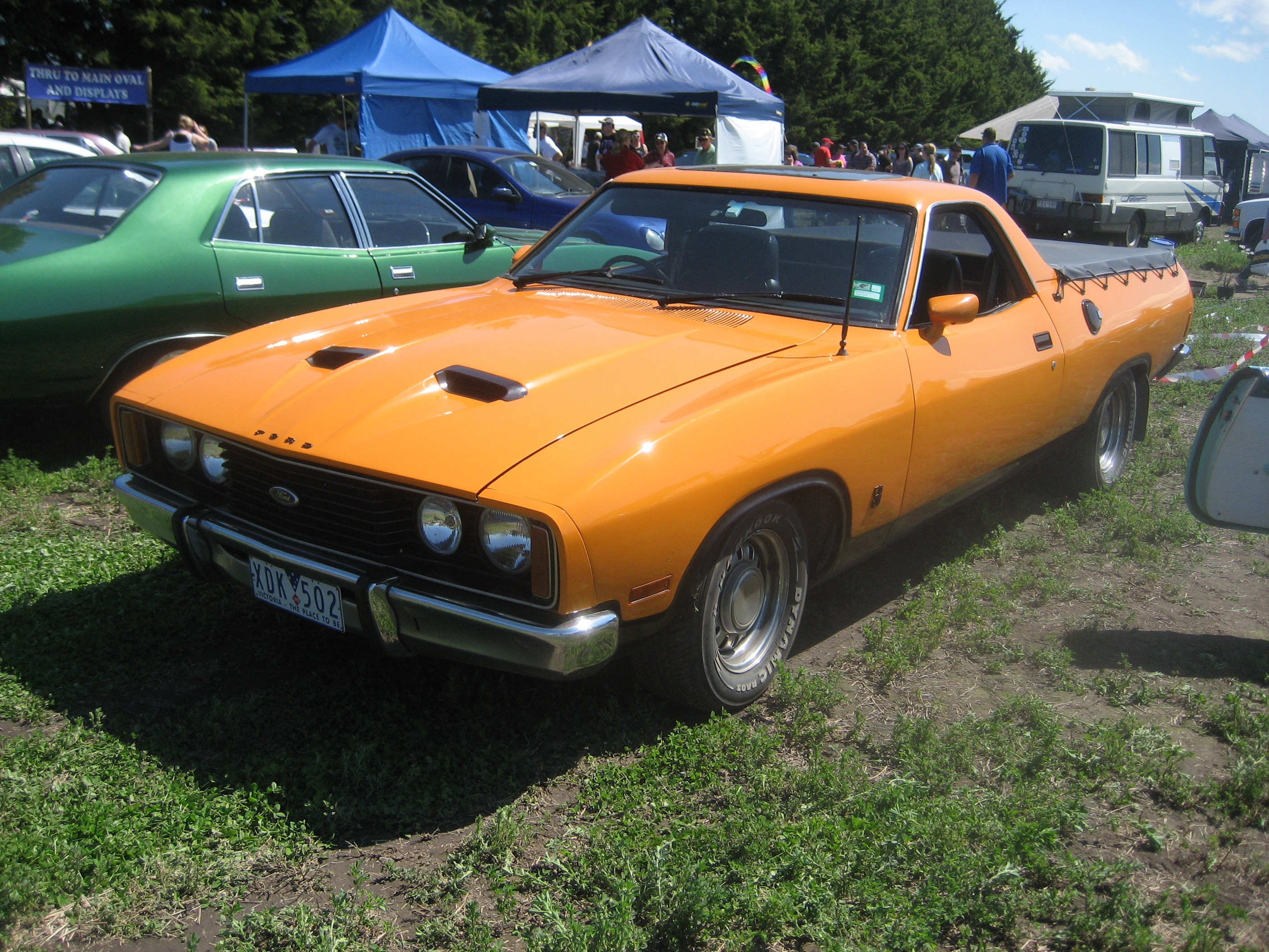 1977 Ford Falcon XC GS. VIN: JG41TE77795K